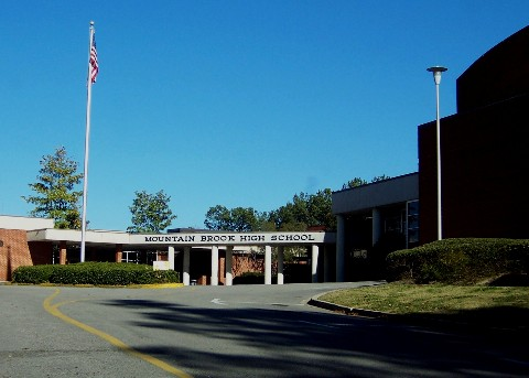 This image of Mountain Brook High School was taken in November 2006. I am the creator and release it to the public domain.